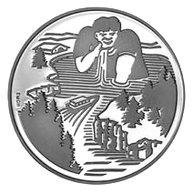 Swiss Commemorative Coin 1996 A CHF 20 obverse